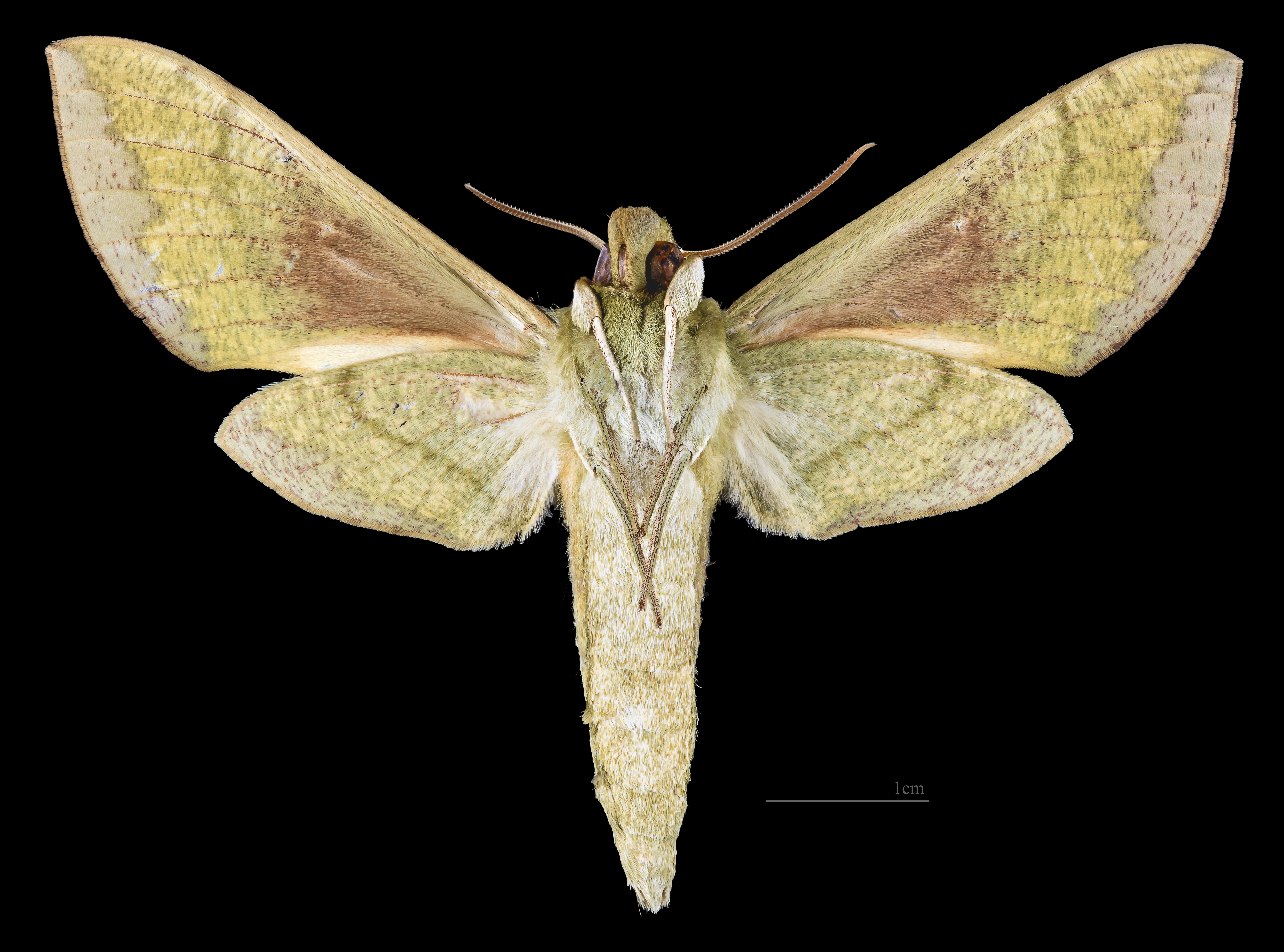 Xylophanes marginalis - △ Ventral side Collection of the Mathematician Laurent Schwartz